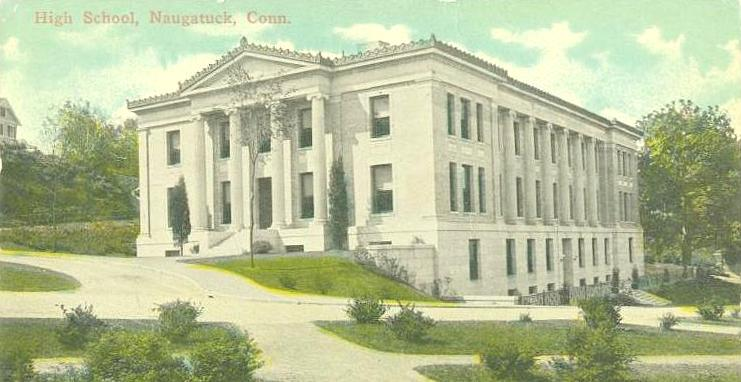 Depicted place: Naugatuck High School